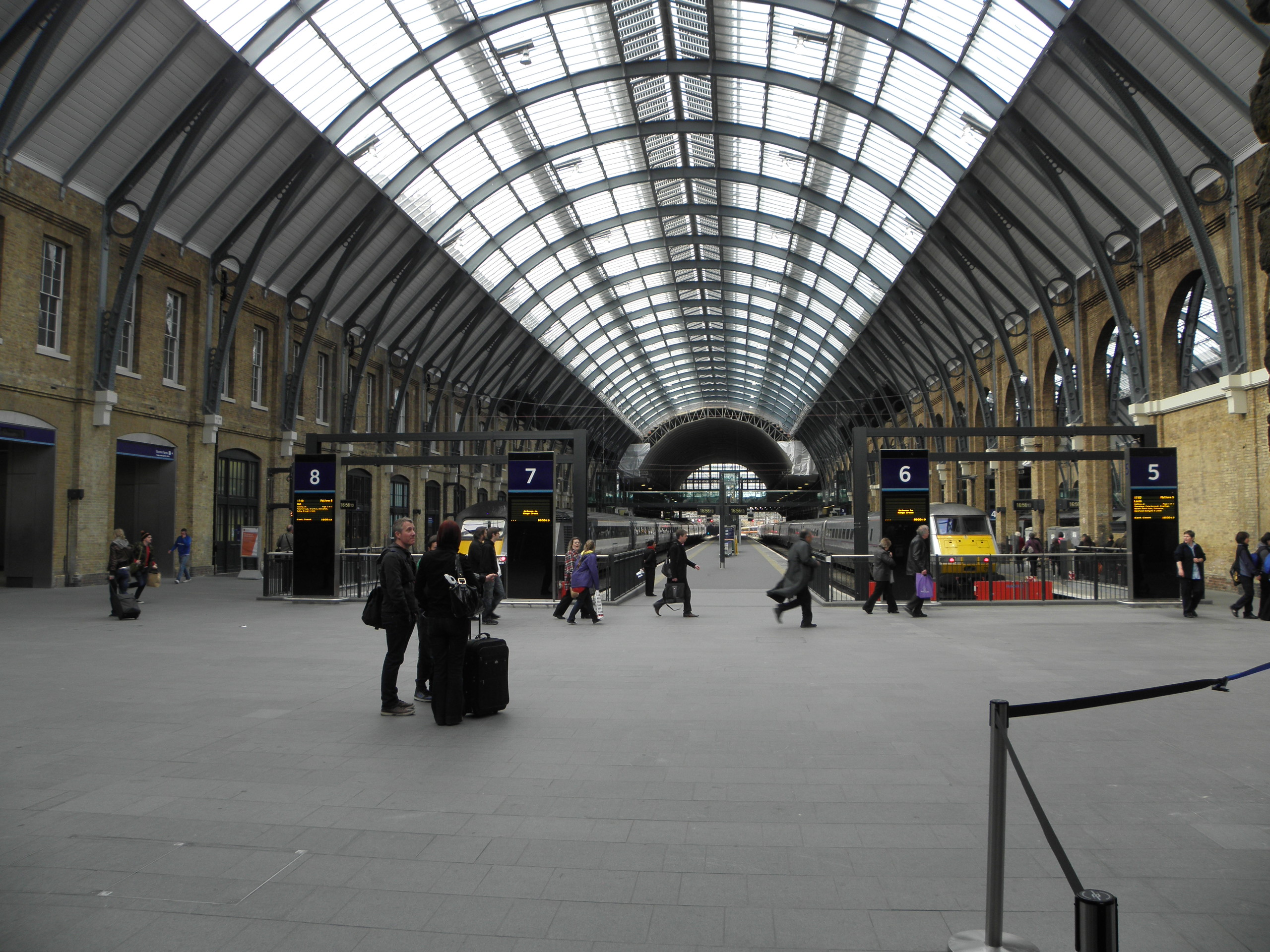 King's Cross station original station western trainshed, pictured soon after opening of the new western concourse in March 2012